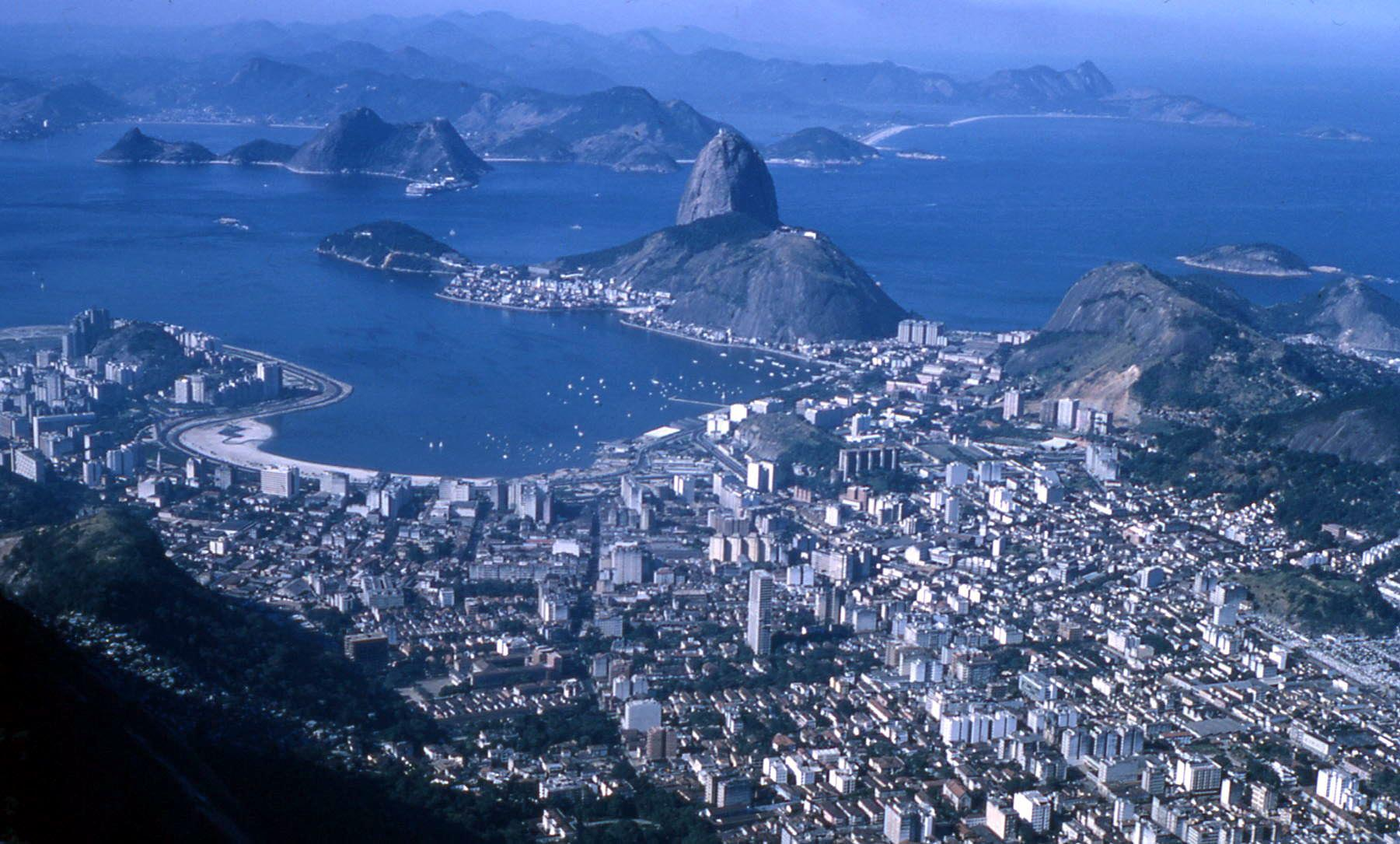 Aerial view of Rio De Janeiro, including Sugar Loaf Mountain